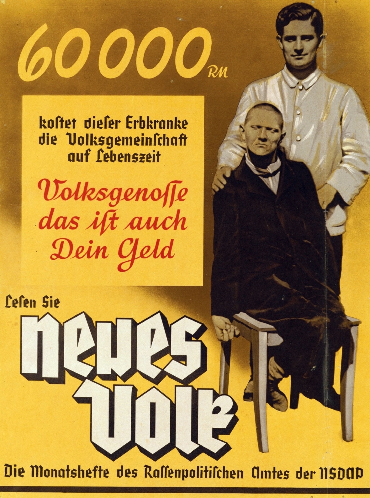 Poster published by Neues Volk ("New People"), a magazine published monthly by the Rassepolitischen Amt der NSDAP (Office of Racial Policy of the Nazi Party), while they were in power; the magazine was founded in 1933. The poster says: "60 000 RM is what this person suffering from hereditary illness costs the community in his lifetime. Fellow citizen, that is your money too. Read Neues Volk. The monthly magazine of the Office of Racial Policy of the NSDAP."